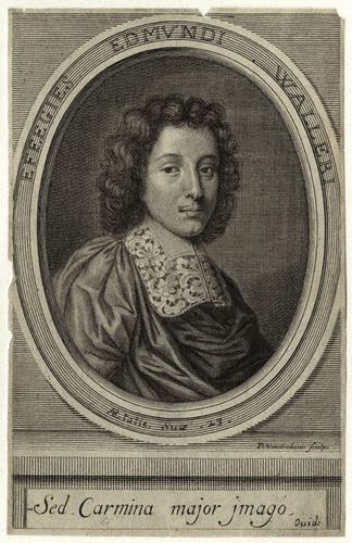 "Edmund Waller," line engraving, by the English engraver Peter Vanderbank (sometimes spelled Vandrebanc), who was born in France. 6 in. x 3 7/8 in. Courtesy of the National Portrait Gallery, London.